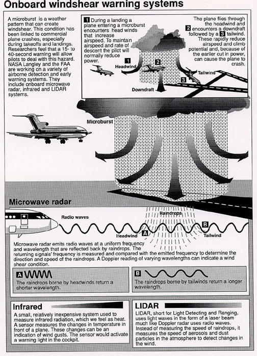 Onboard windshear warning systems